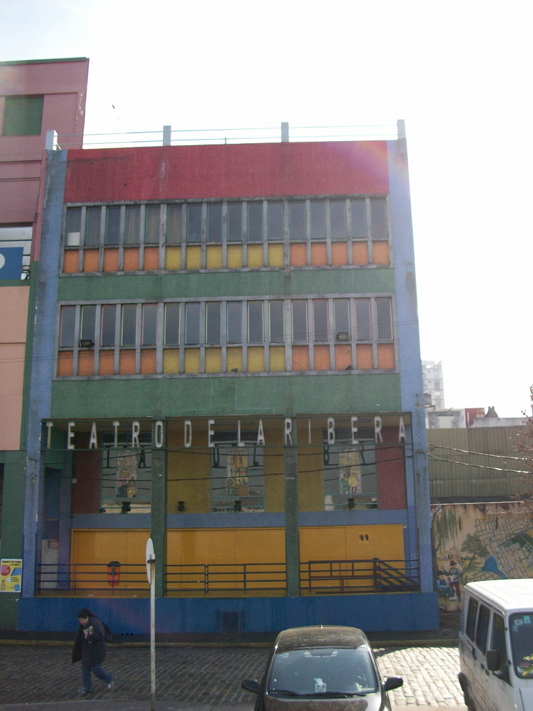 De la Ribera Theatre, La Boca, Buenos Aires.